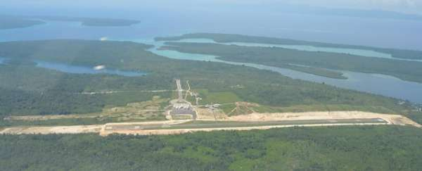 Karel Sadsuitubun Airport, Langgur, Maluku, Indonesia